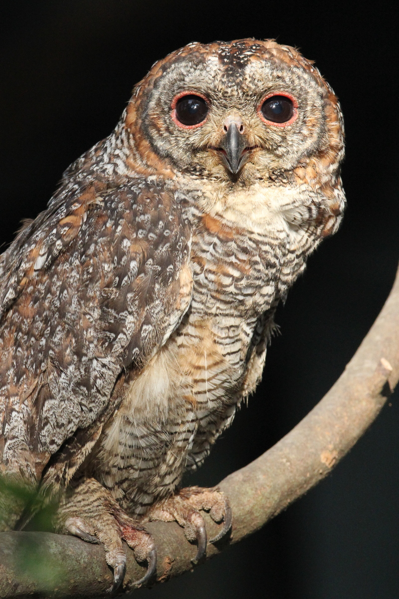 Photography of Mottled Wood Owl taken in Kerala, India.